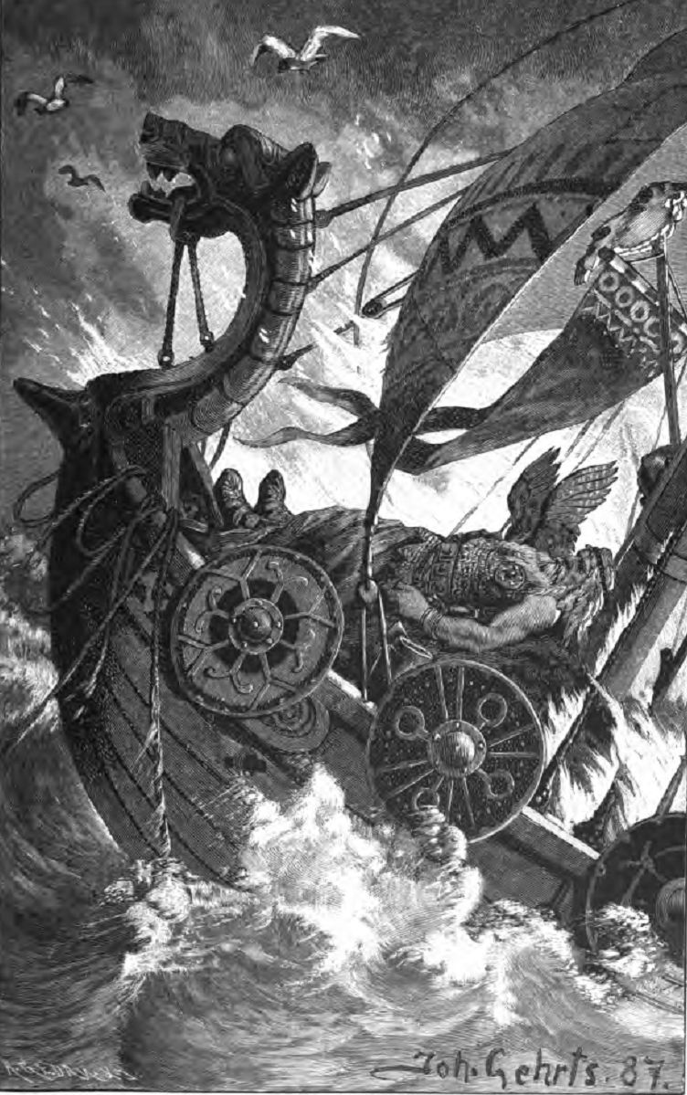 Viking burial, is depicted in the imagination of the 19th century artist.